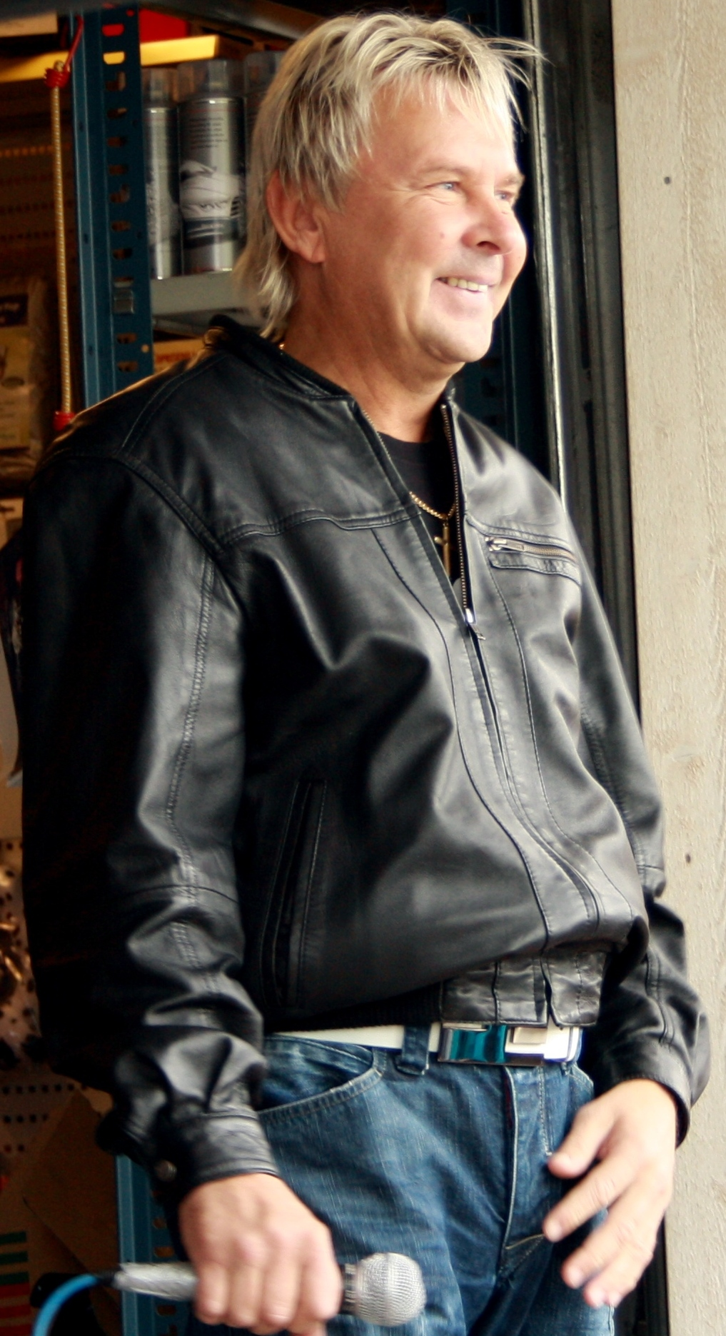 Matti Nykänen singing and joking with his guitarist during a performance held at a car repair parts shop in Kirkkonummi, on the 19th of June 2010.